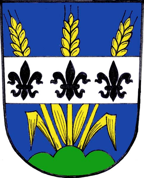 Municipal coat of arms of Slatina village, Klatovy District, Czech Republic.